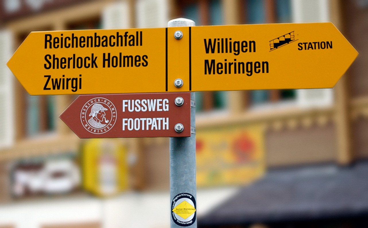 Arrow, showing the path to Meiringen, Reichenbach falls and Sherlock Holmes footpath